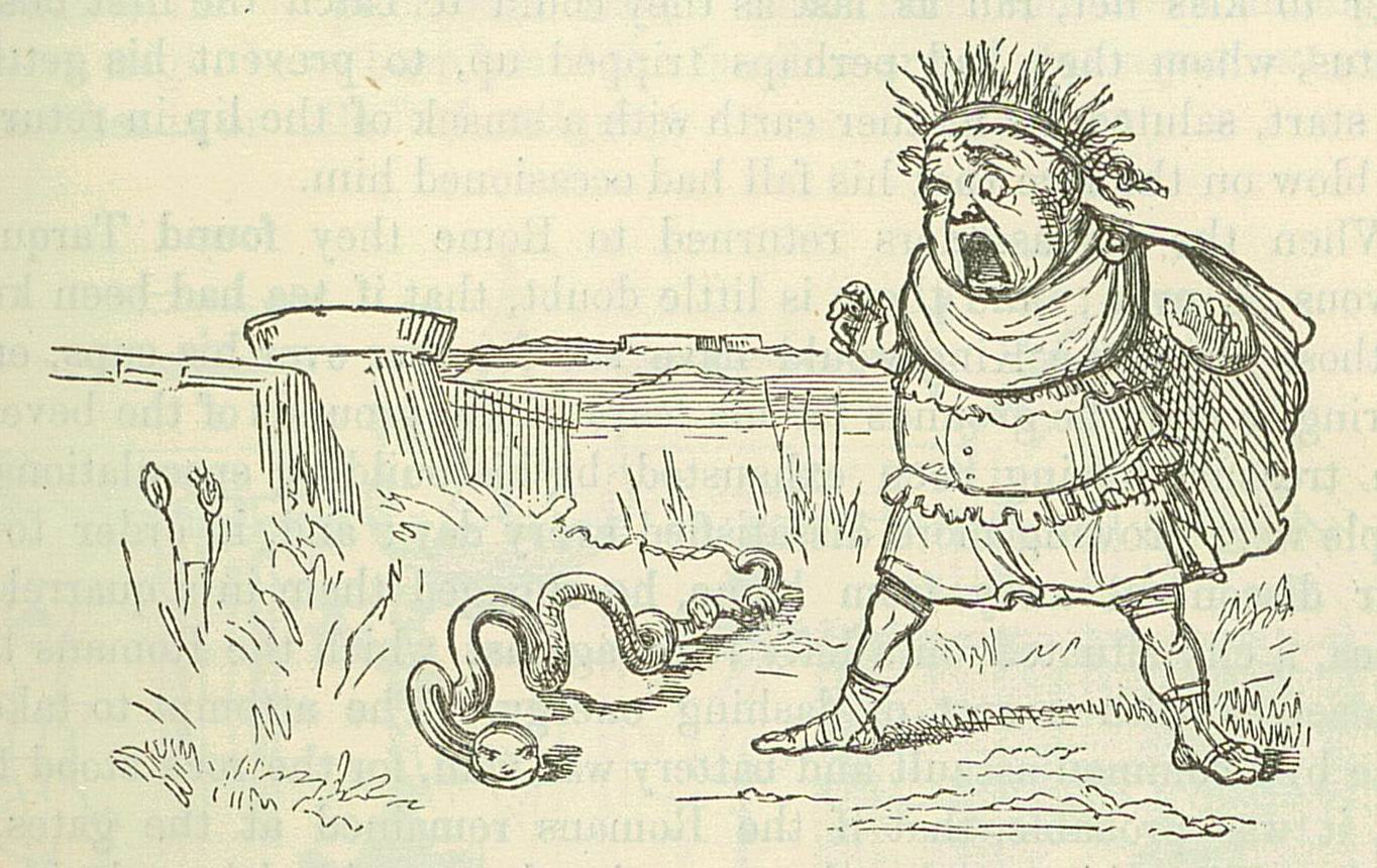 Image by John Leech, from: The Comic History of Rome by Gilbert Abbott A Beckett. Bradbury, Evans & Co, London, 1850s The Evil Conscience of Tarquin